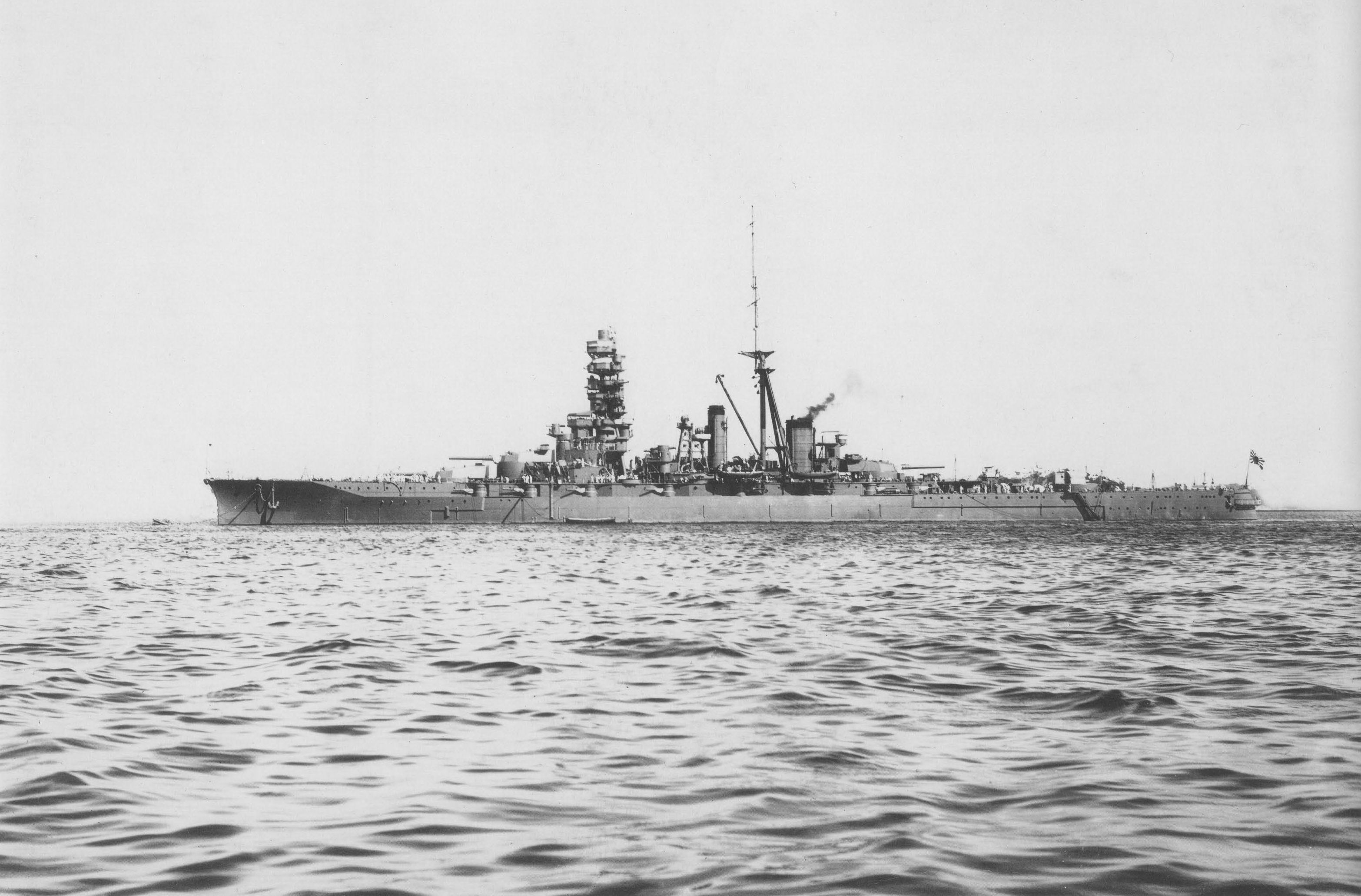 Imperial Japanese Navy battleship Hiei at Yokosuka after rennovation.